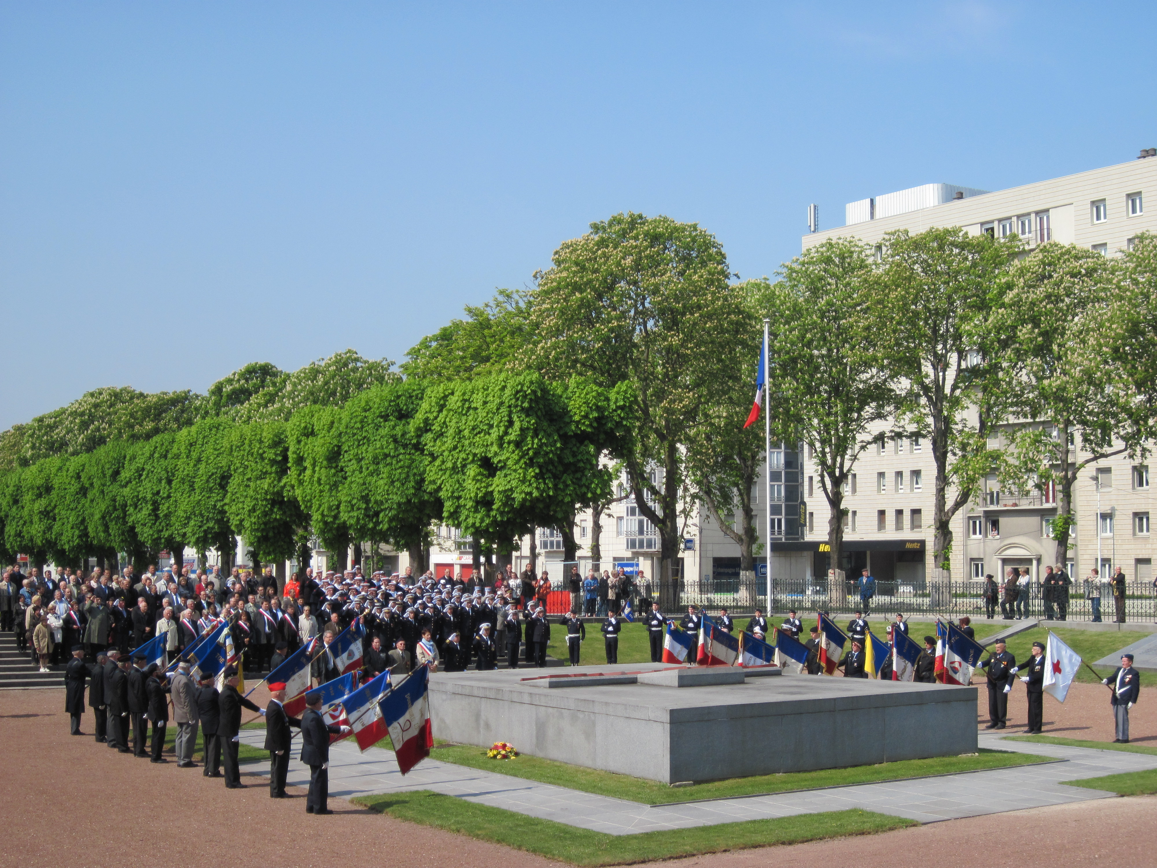 Celebrations at the Liberations Day in Reims (France)